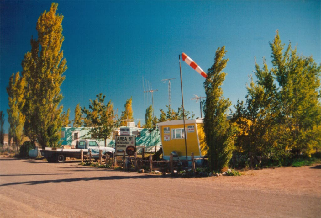 Glen Campbell's Area51 Research Center, Rachel NV, which closed November 2001